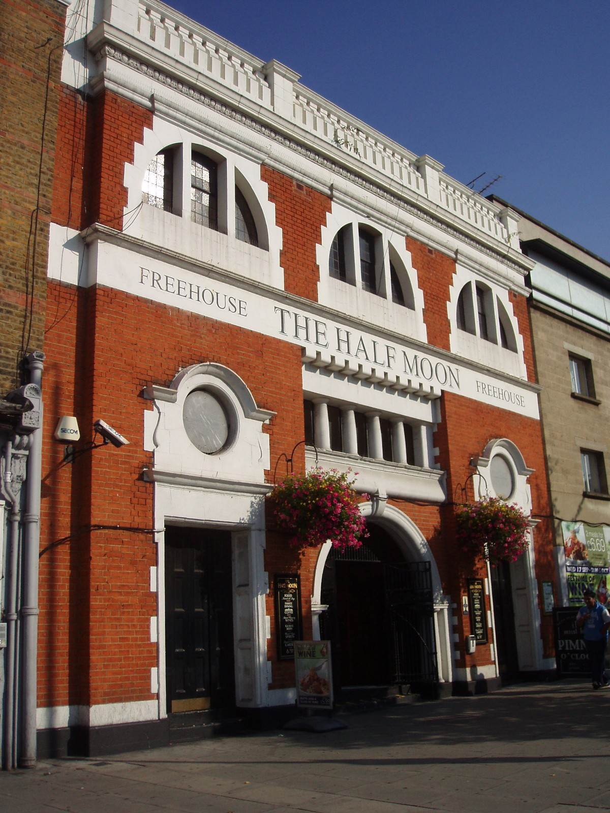 The Wetherspoons near Stepney Green station. Address: 213-223 Mile End Road. Owner: JD Wetherspoon (website).